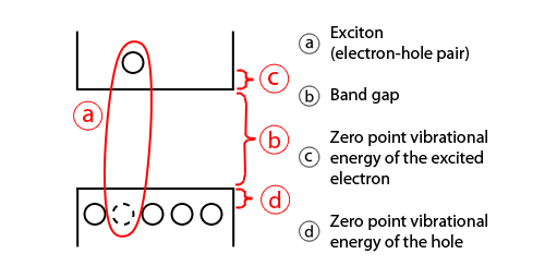 the image shows the excited electron and the hole in an exciton and the corresponding energy levels